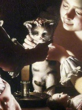 Two Girls Dressing a Kitten by Candlelight (detail – derivative work)